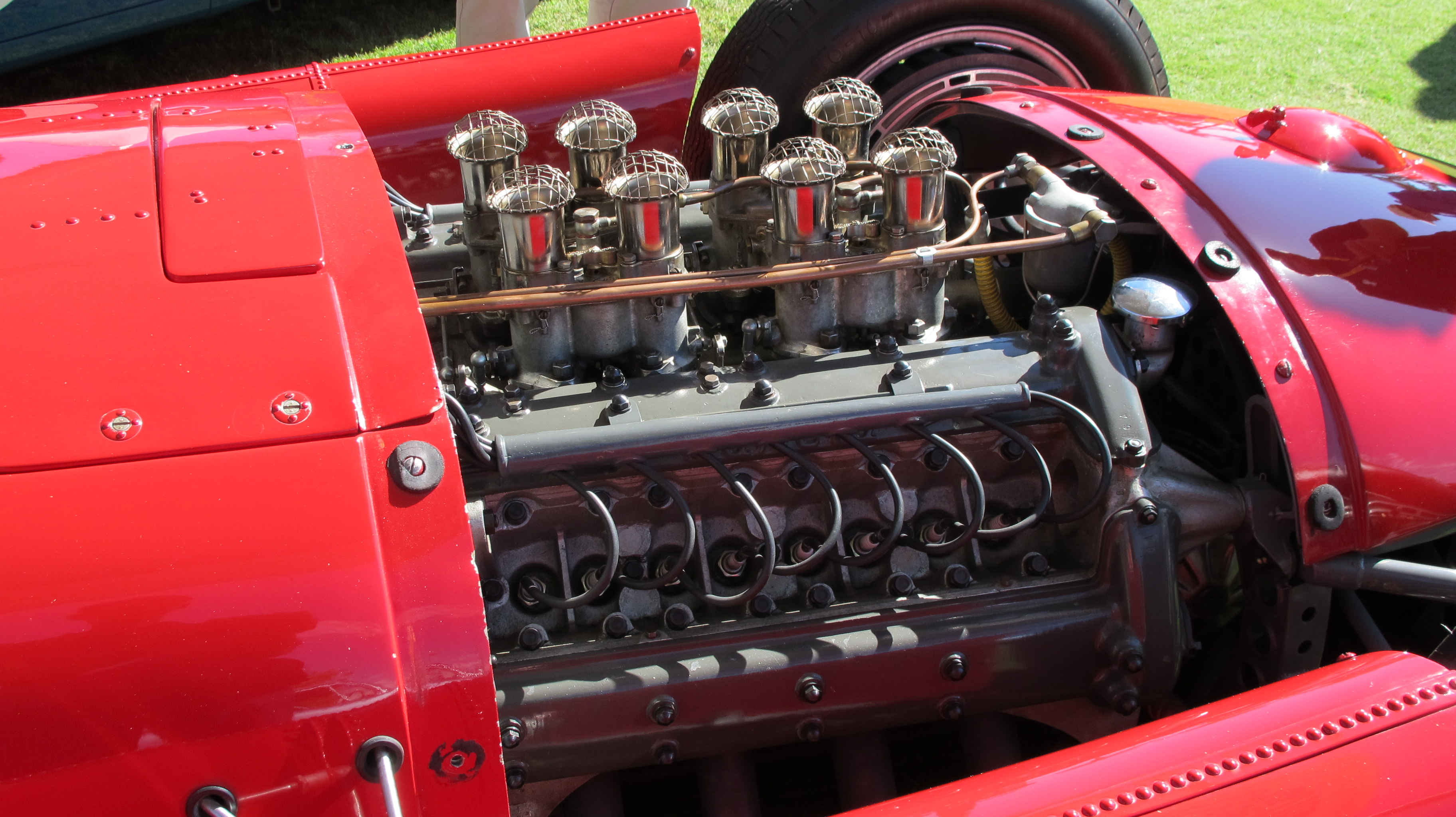 The 1954-1956 Lancia-Ferrari D50 Grand Prix racing engine, displayed at the Ferrari Club of America national concours in Palm Springs